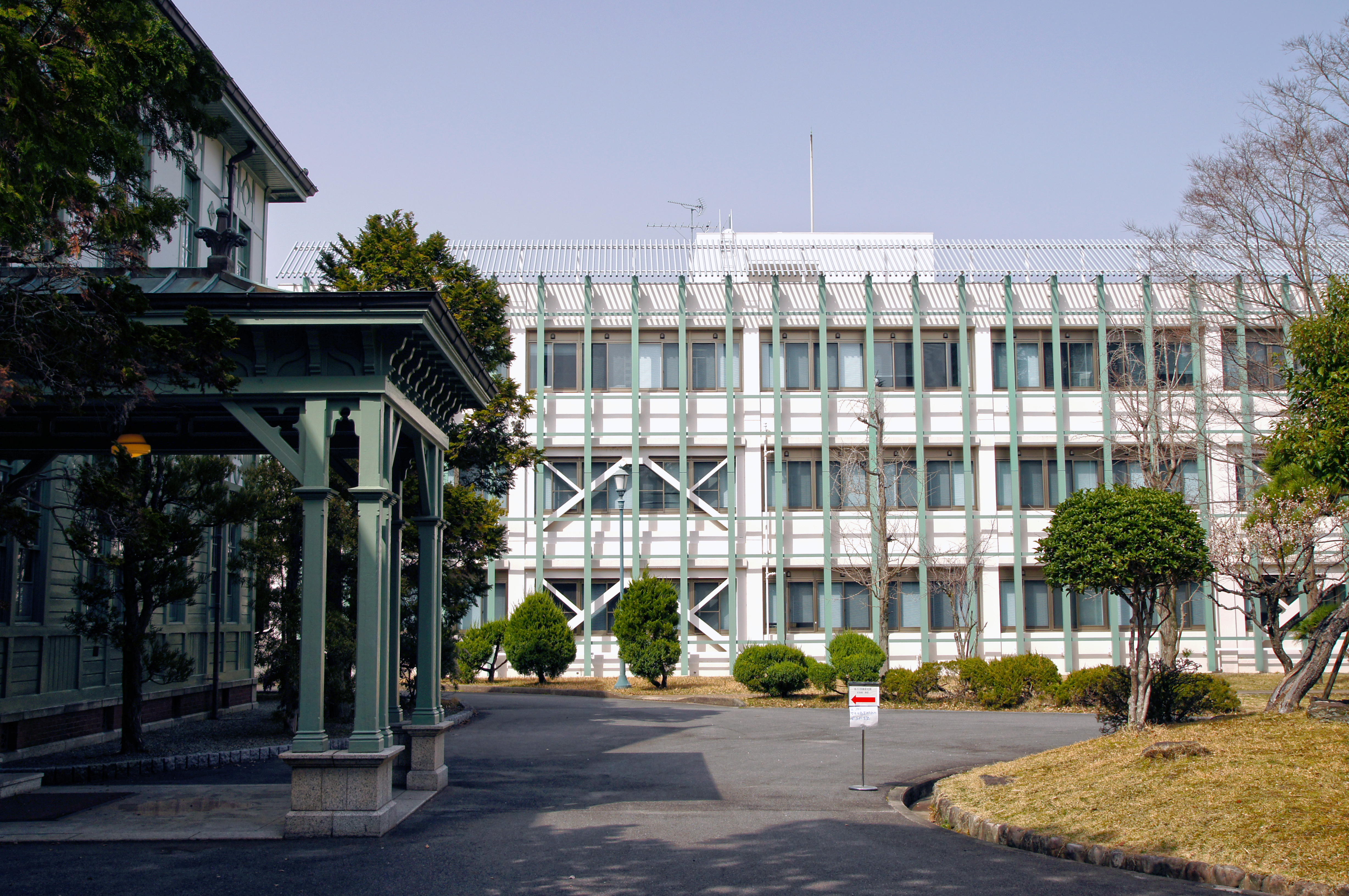 Nara Women's University in Nara, Nara prefecture, Japan.